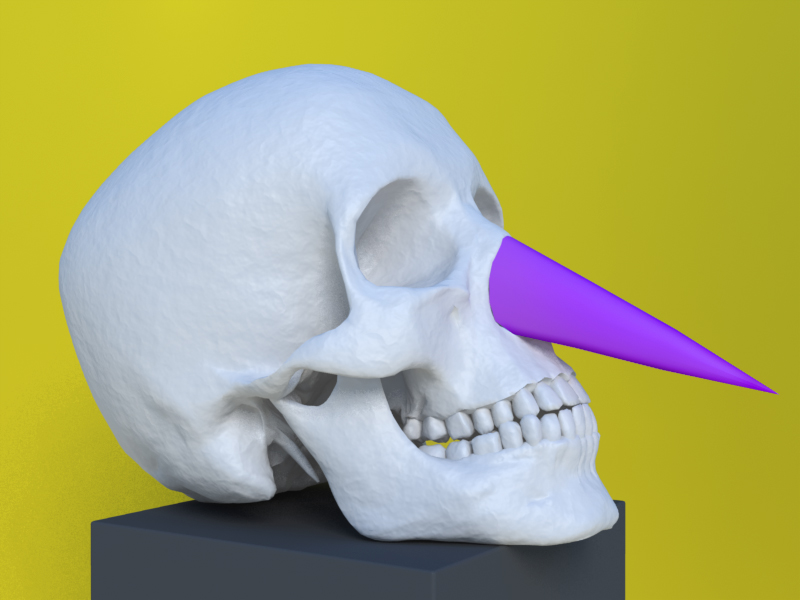 Three-dimensional rendering of a human skull with a long conical purple nose